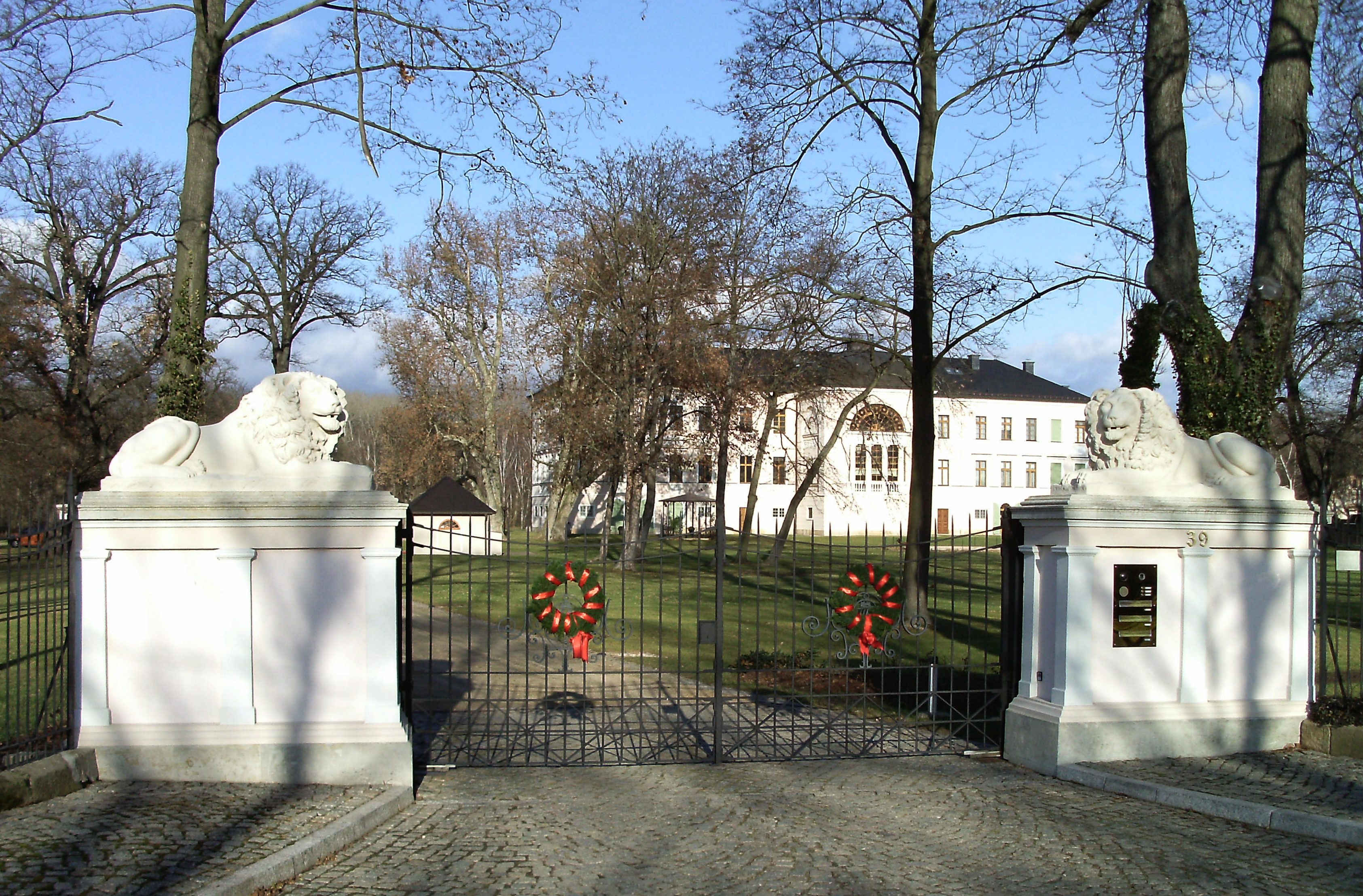 Entry to Dölkau Castle (Leuna, district of Saalekreis, Saxony-Anhalt)